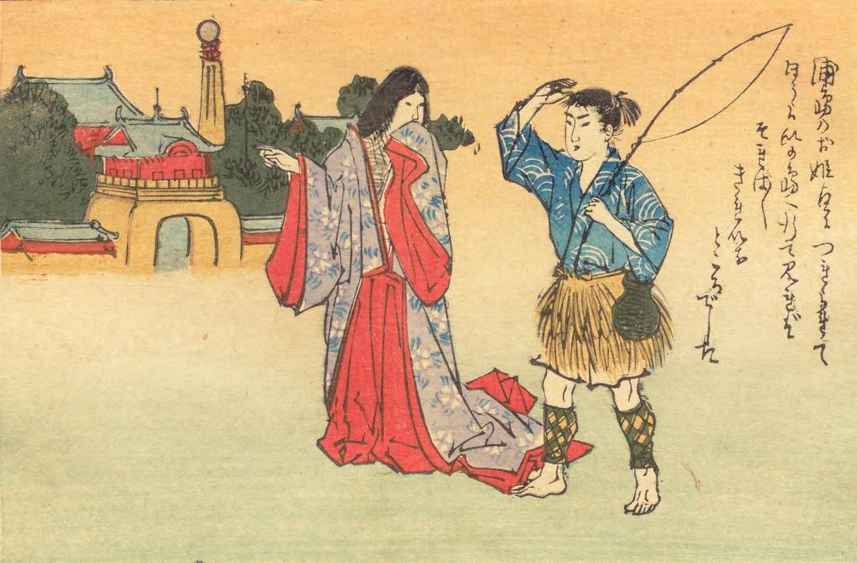 p. 4, Princess and Urashima Tarō arrive at Hōrai Island (ほうらひの島）